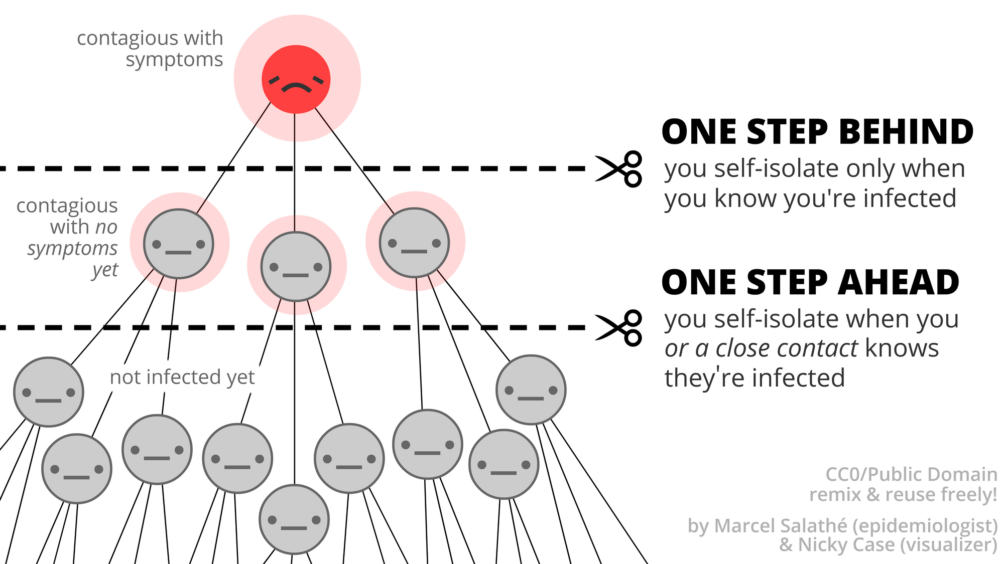 Singapore & South Korea have *already* controlled #COVID19, all without massive shutdowns! (& US/Europe can do the same AFTER suppressing cases for 1-2mo) How? By staying #OneStepAhead with: 🔗CONTACT TRACING🔗 😱COVID-19 is contagious *before* you feel sick 🔗But we can stay #OneStepAhead with contact tracing 🕵️‍♀️(that protects privacy) ⭐️And this gives me hope, determination & better mental health to power through this lockdown... so I can eat satay again soon. Source